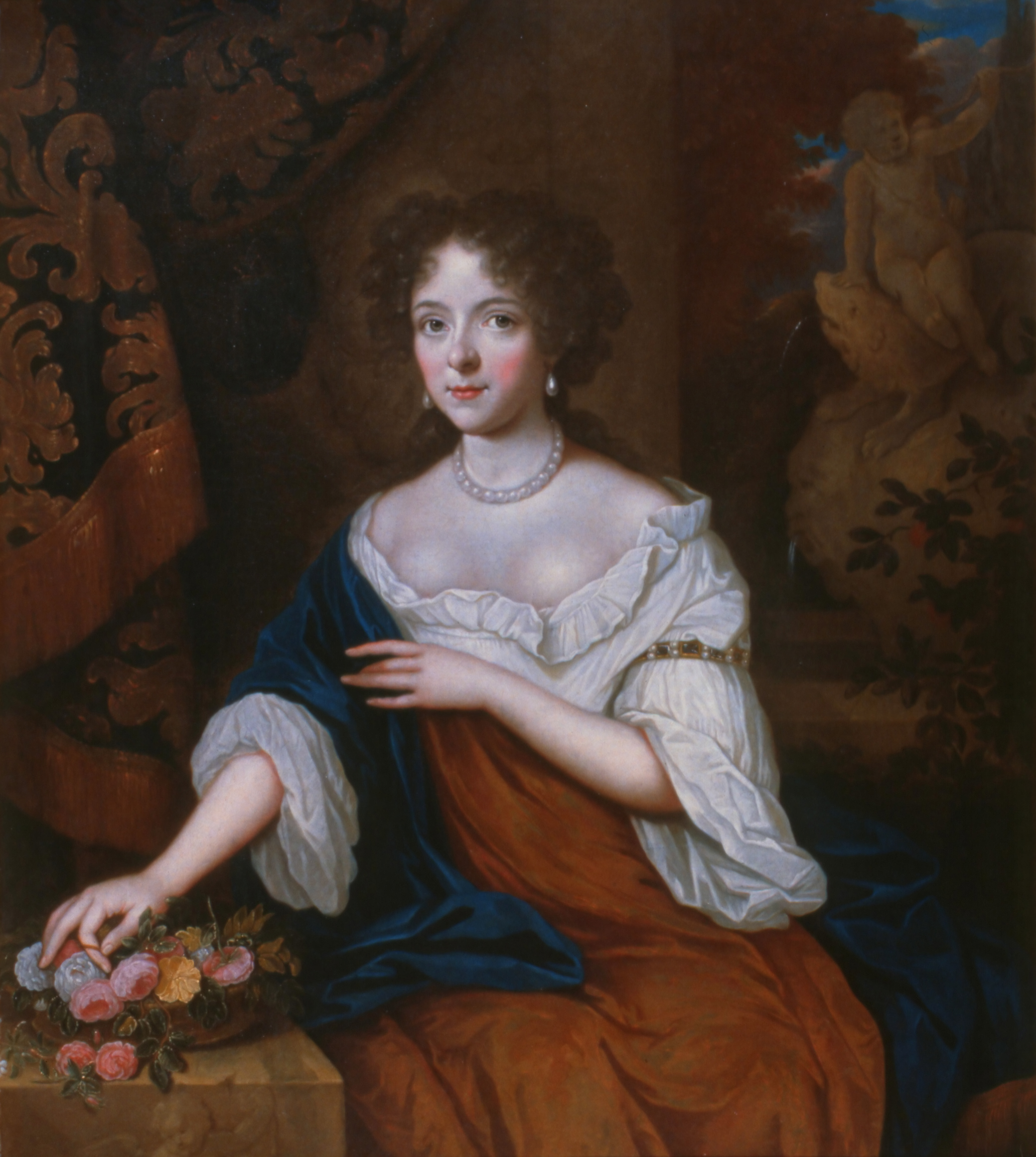 Maria Duyst van Voorhout (1662-1754) oil on canvas 64,5 x 55,5 cm ca. 1685